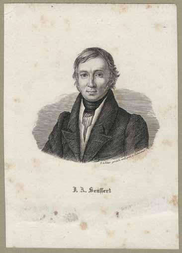 The german jurist Johann Adam von Seuffert (1794-1857).